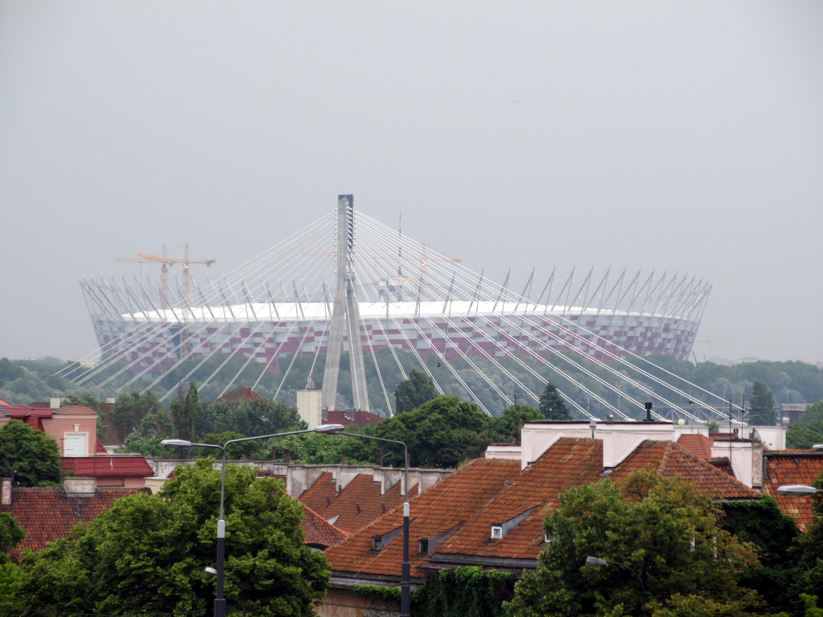 National Stadium and Świętokrzyski Bridge in Warsaw, Poland.